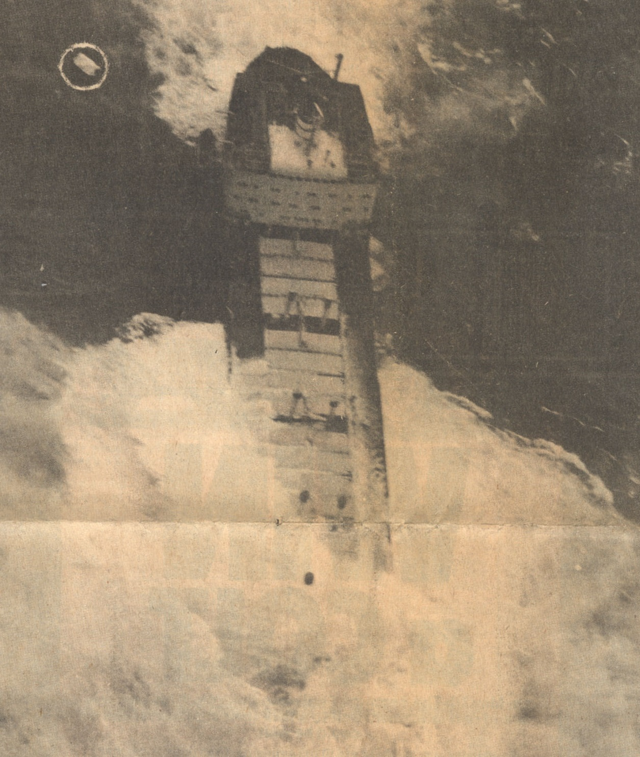 The photo taken from Lockheed P-3 Orion of the United States Navy. The photo taken befor the ship sank